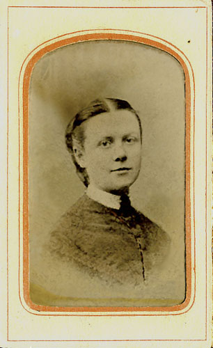 Photographic portrait of Susan Dimock (1847-1875).